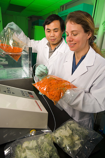 Technician Ellen Turner samples the modified atmosphere in packages of shredded carrots and fresh-cut Salad Savoy while visiting scientist Bin Zhou tests packages for leaks.